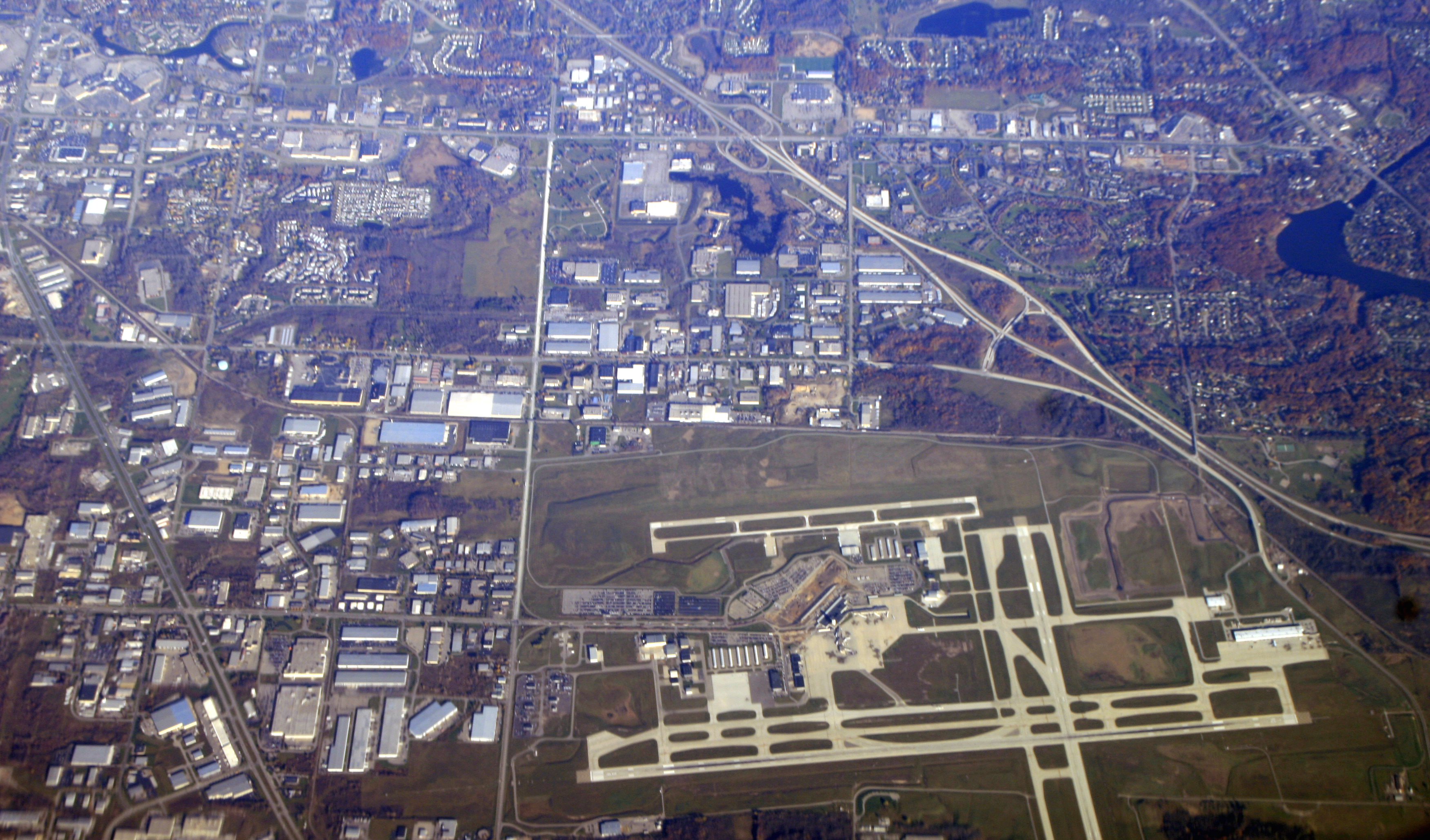 Aerial Image of Gerald R. Ford International Airport; images taken near Grand Rapids, Michigan, United States